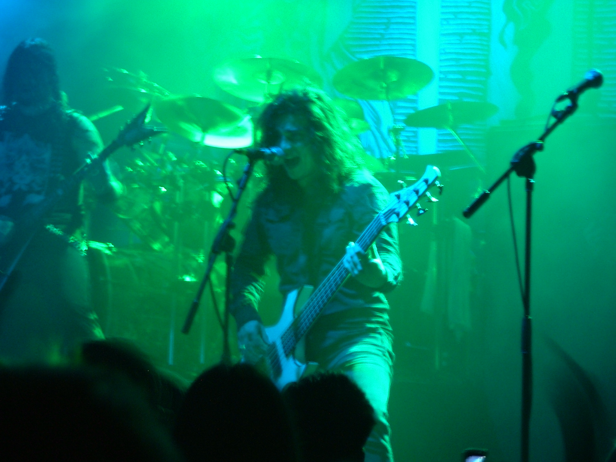 Paolo Gregoletto of US-american thrash metal band Trivium at a concert in Linz